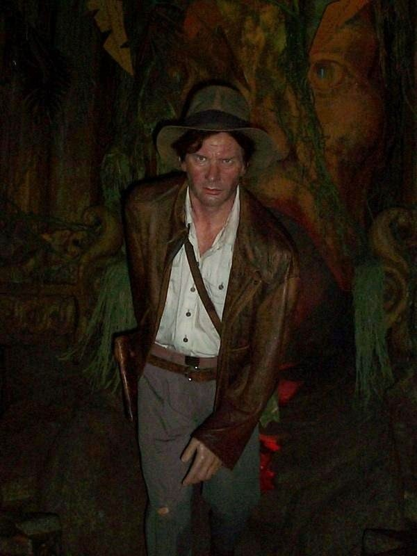 Indiana Jones wax figure at Madame Tussauds London.